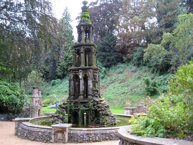 Plantation Garden This garden was created by Henry Trevor after the area changed from industrial to residential use in 1855. Previously tunnels had been dug to extract flints for building, and then the surrounding chalk had been quarried. The garden displays many Victorian features like this ornate fountain.